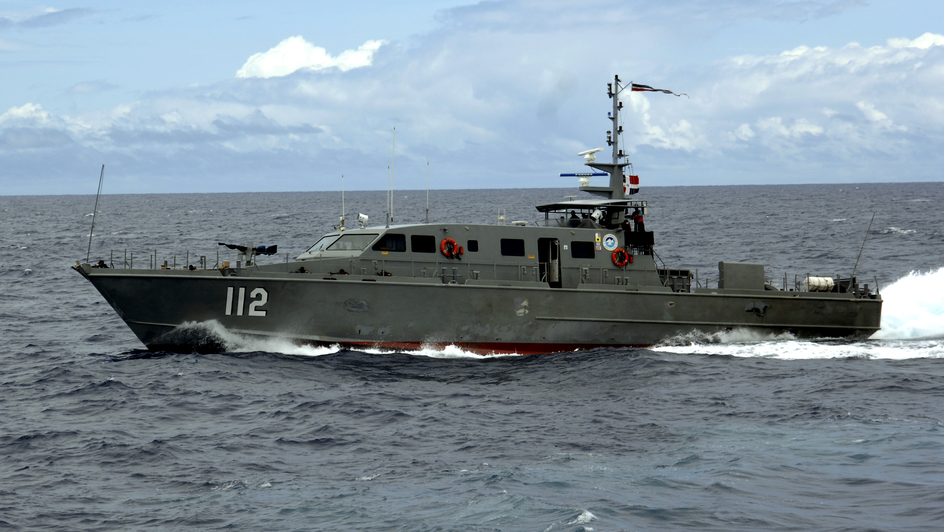 The Dominican Republic patrol craft Altair (PB 112) practices high-speed maneuvers off the port side of the Columbian frigate ARC (Armada Republica de Colombia) Antioquia (FL 53), during training exercise PANAMAX 2006. PANAMAX brings together civil, naval and air forces from 18 countries to conduct multi-national training, designed to improve security and defense of the Panama Canal.